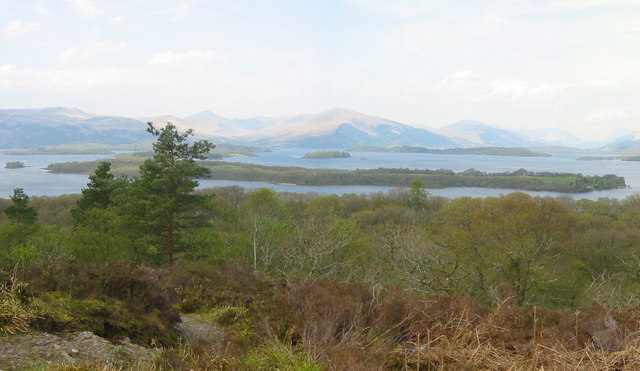 Inchcailloch (Innis na Cailleach, island of the old woman), Loch Lomond, Scotland. View from the summit (85m) over the woodland and the neighbouring island, Inchfad.